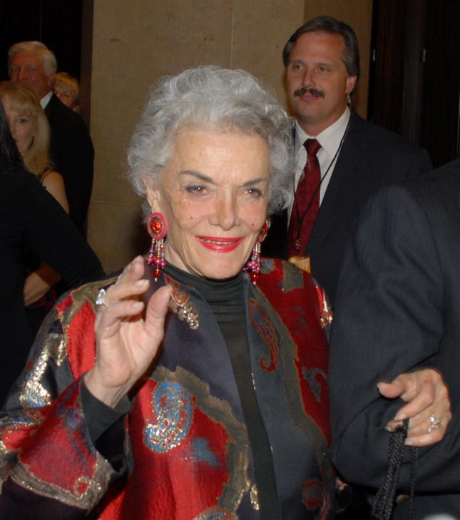 Jane Russell at the 16th Annual MovieGuide Faith and Values Awards Gala